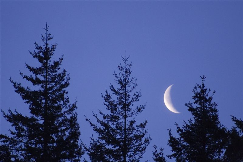 Caught the moon just before sunrise (thanks to my 2-year-olds) at Hebo Lake, Oregon. Trees are Pseudotsuga menziesii.